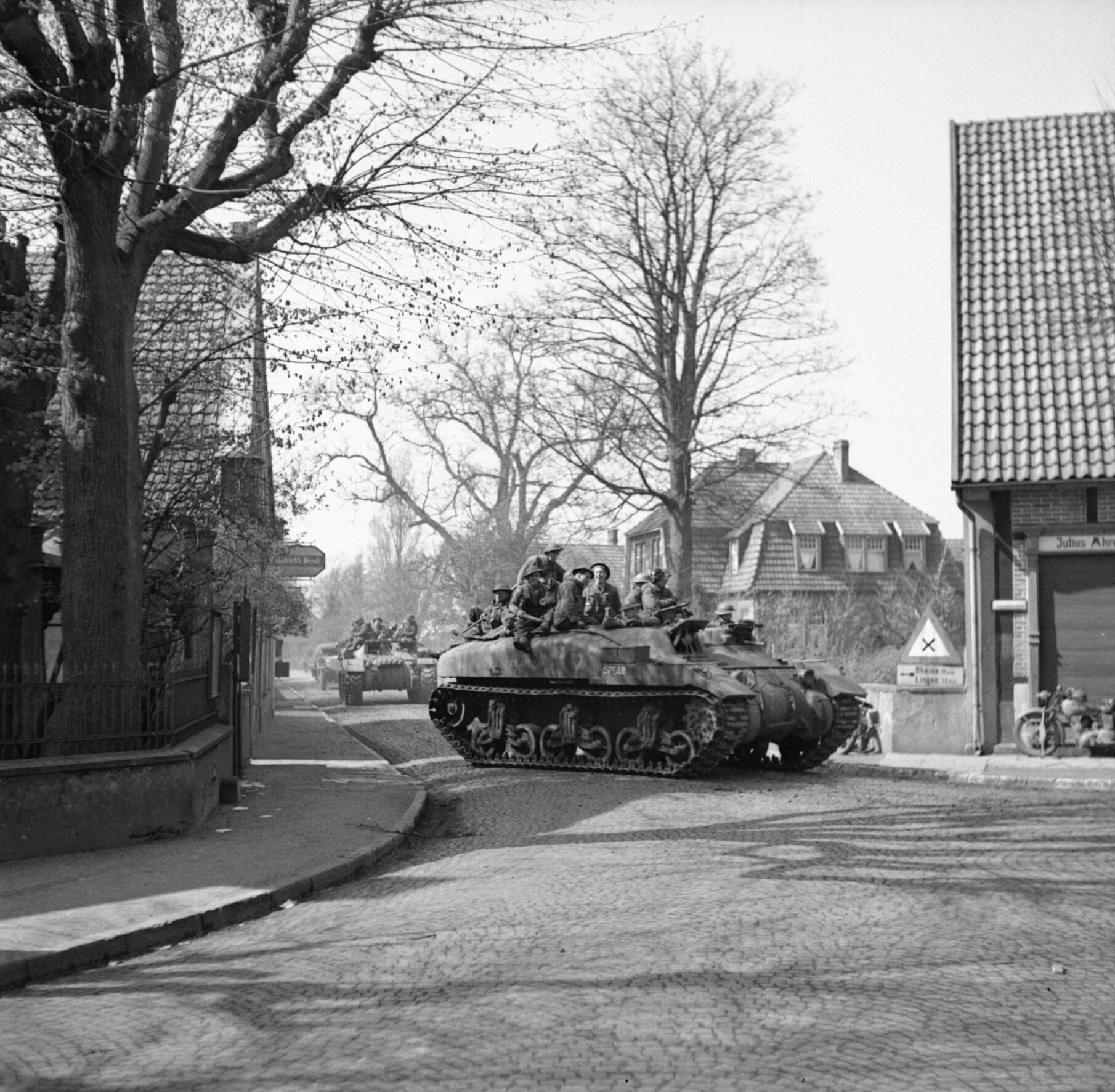 The British Army in North-west Europe 1944-45 Ram Kangaroo personnel carriers passing through Hopsten, 8 April 1945.